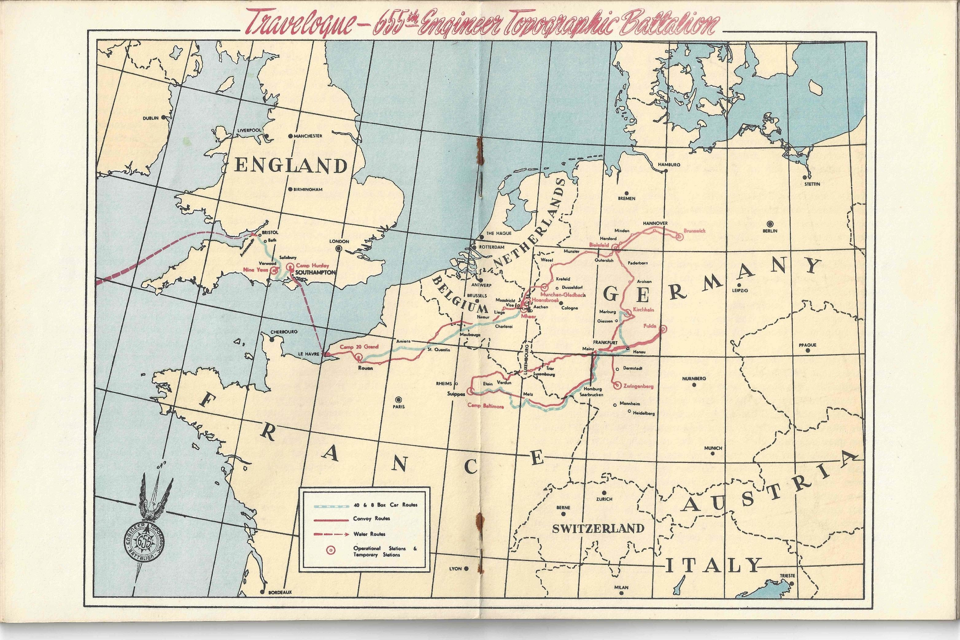 This map shows the movements and types of transportation of the 655th Engineer Topographic Battalion during WWII.